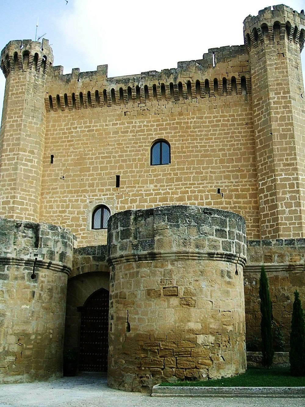 Castillo de Sajazarra (La Rioja, España)